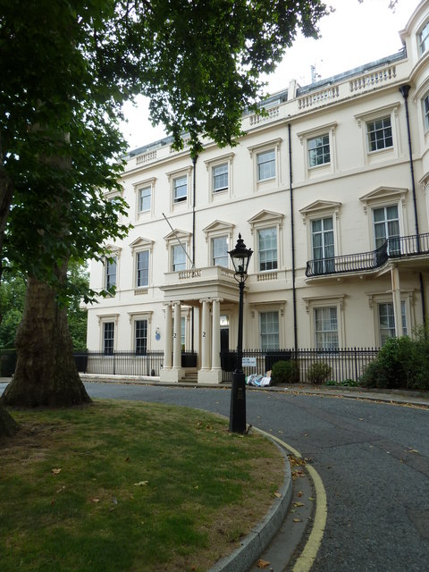 Lamppost in Carlton Gardens, London.